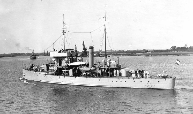 Dutch Gruno-class gunboat Frisio during the pre WOII years